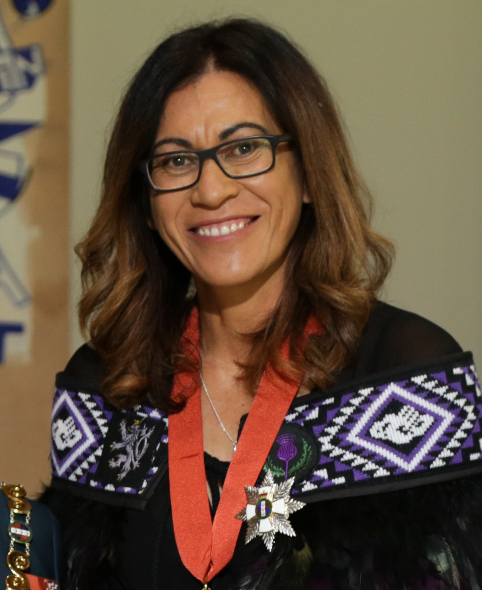 Noeline Taurua, after her investiture as DNZM, for services to netball, at Government House, Auckland, on 27 July 2020.